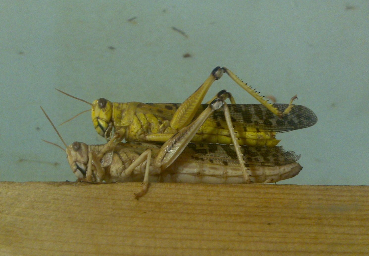 Schistocerca gregaria, London Zoo.